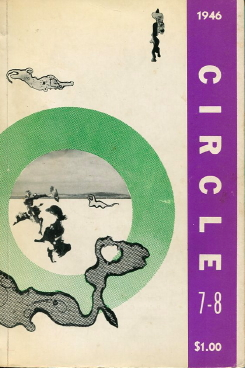 Cover of 7th and 8th issue of Circle Magazine, 1946